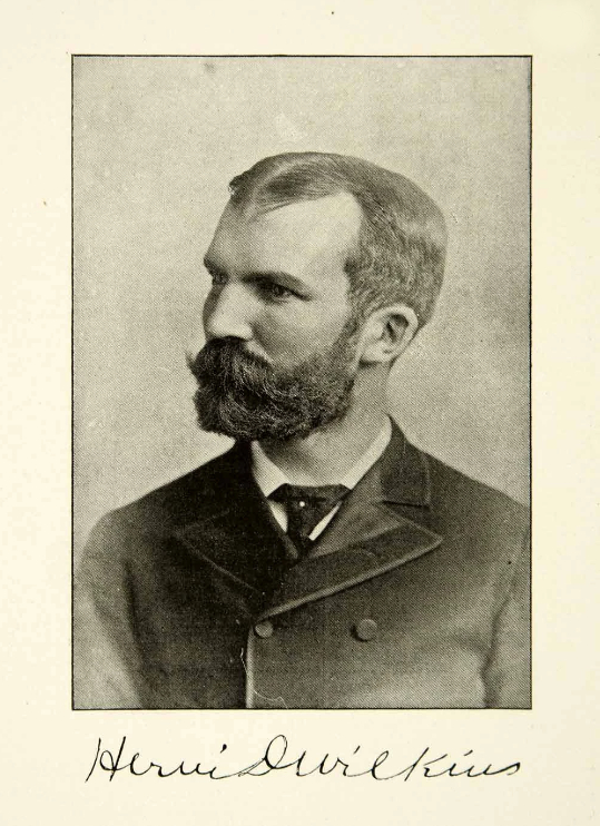 Organist and vomposer, Rochester, New York. Founding member of the American Guild of Organists